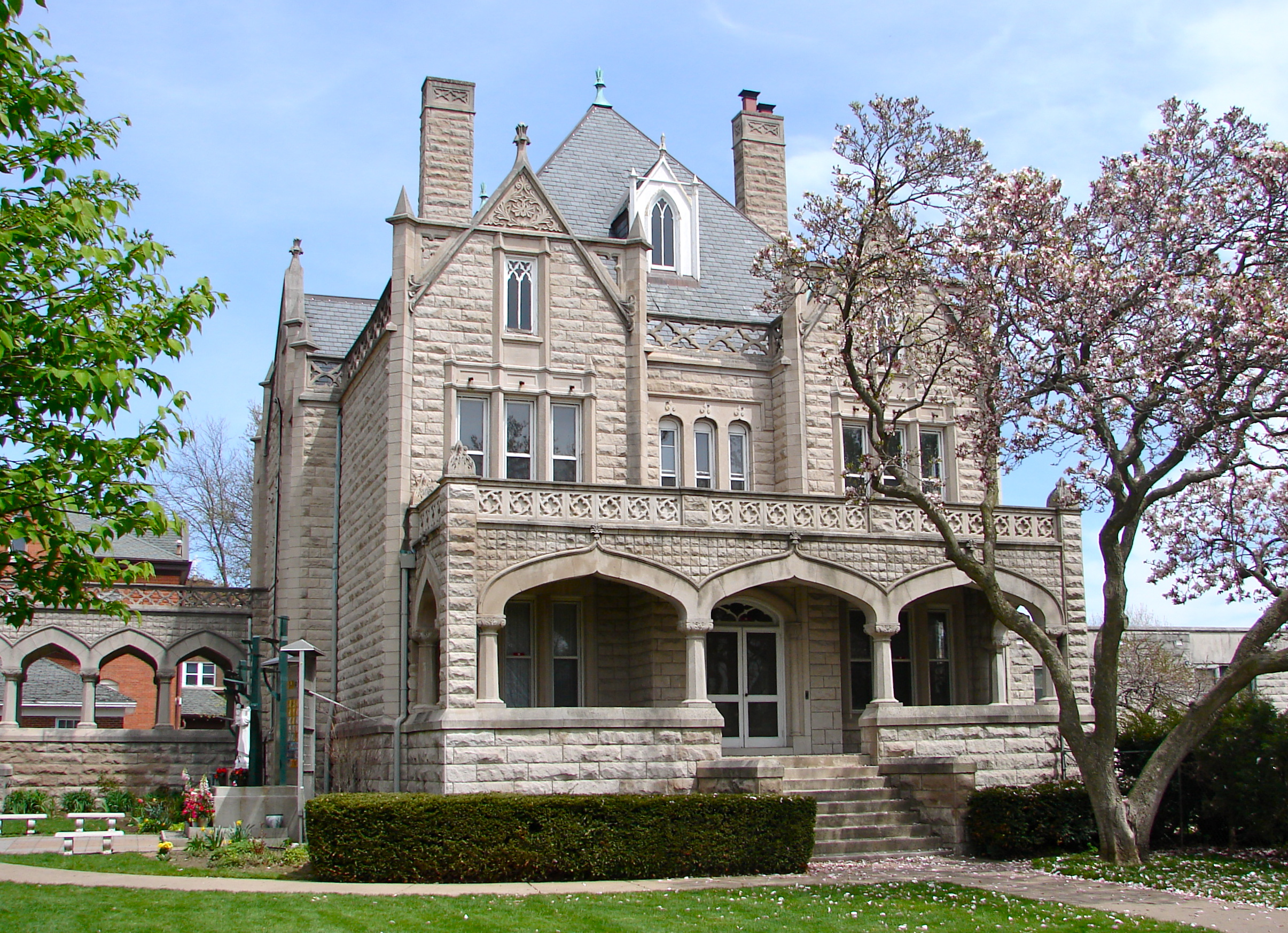 Sacred Heart Rectory, part of the Sacred Heart Roman Catholic Cathedral Complex on the NRHP since April 5, 1984. Complex covers one big lot with addresses 406 and 422 E. 10th St. and 419 E. 11th St., Davenport, Scott county, Iowa. Gothic revival style church built in 1891. Designation also includes the rectory and the former convent